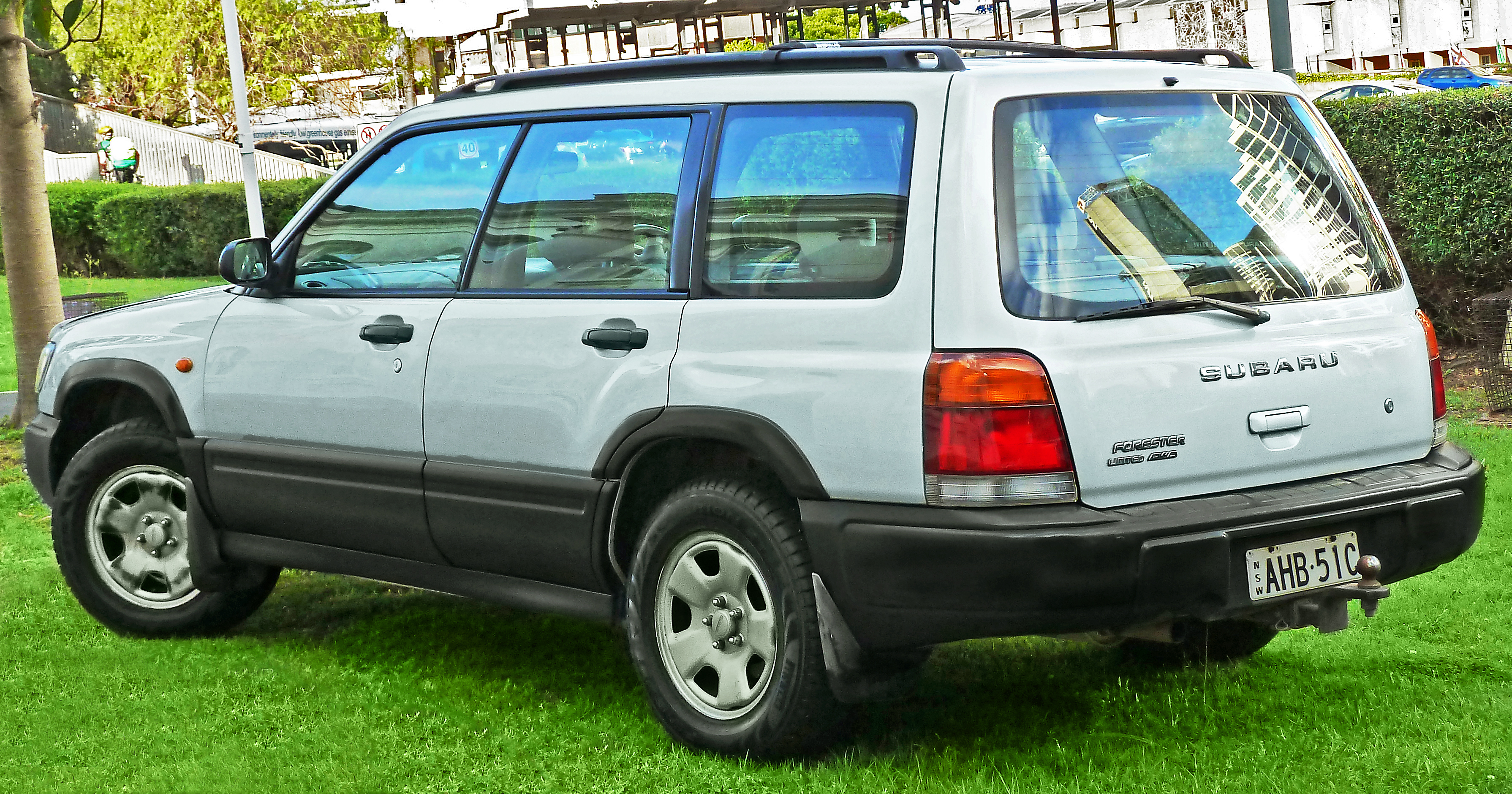 1999 Subaru Forester (SF5 MY99) Limited wagon. Photographed in Millers Point, New South Wales, Australia.